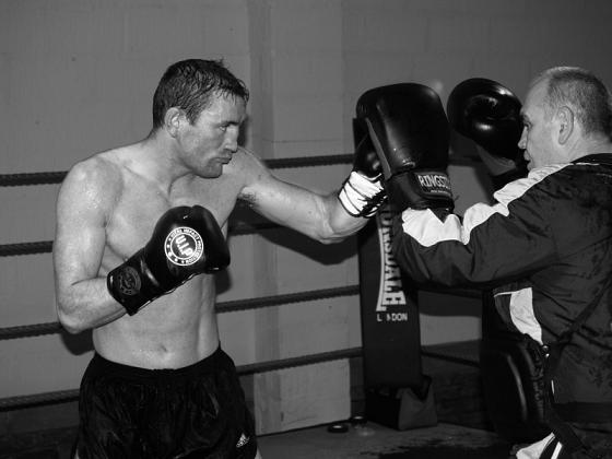 Allan Stevenson - Gomez